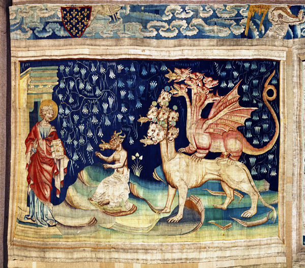 Château d'Angers; Angers; Pays de la Loire, Maine-et-Loire; France; Tenture de l'Apocalypse; no 62, Les grenouilles; Cultural heritage; Cultural heritage|Tapestry; Europeana; Europe|France|Angers; Hennequin de Bruges (Jan Bondol en flamand); connu également sous les noms de Jean de Bruges ou de Jean de Bondol ou encore Jean de Bandol; ; Ref.: PMa_ANG060_F_Angers